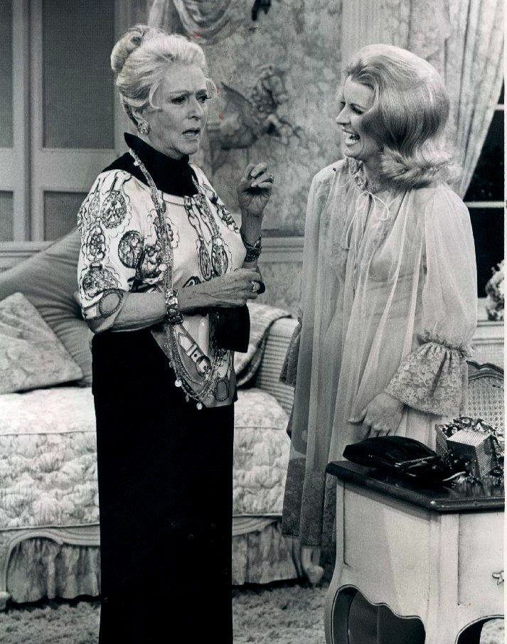 Photo of Jessie Royce Landis (J.J.'s grandmother) and Julie Sommars (J.J.) from the television program The Governor and J.J..